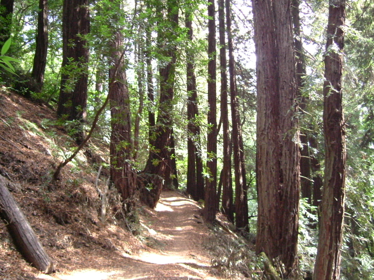 Author: fizbin